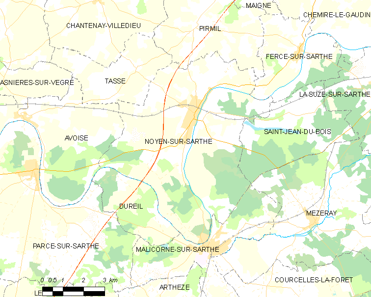 Map of French municipality